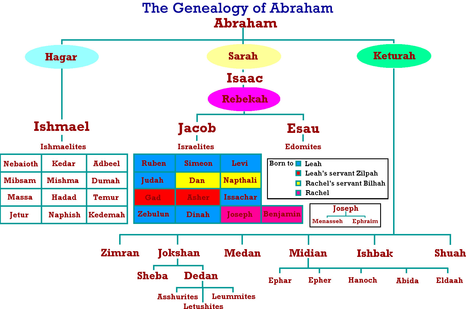 The Genealogy of Abraham according to the Bible